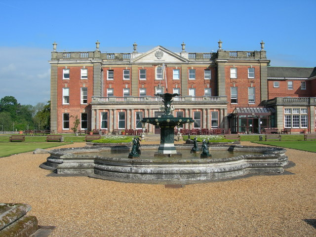 HM Prison Service Training College, Newbold Revel Looking towards the dining area. This building houses the administrative and catering areas, the actual classrooms and accommodation is elsewhere on the campus.